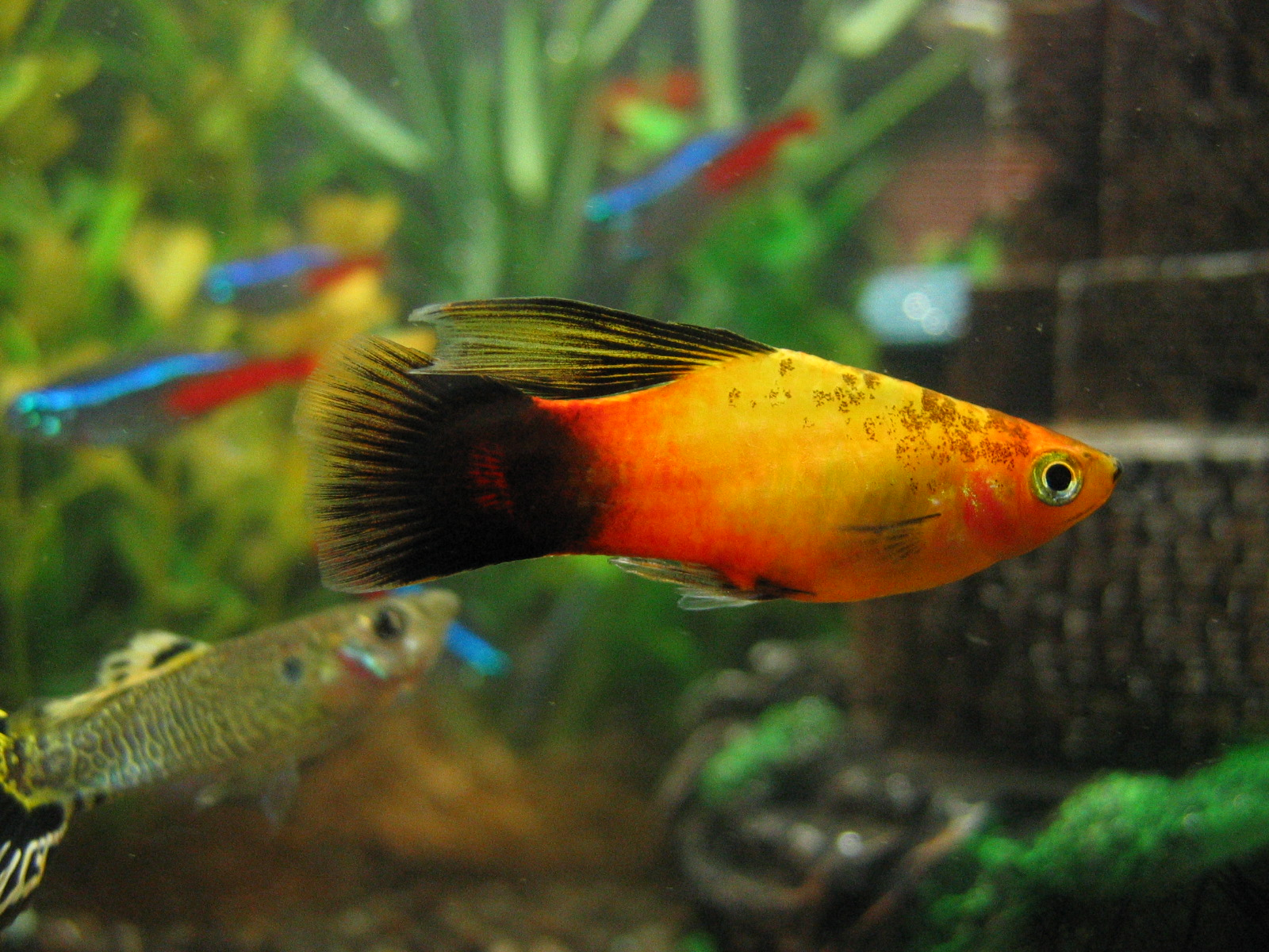 Southern Platyfish (Xiphophorus maculatus), male specimen. In the background there are one male cobra snakeskin-coloured Guppy (Poecilia reticulata) and several Neon Tetras (Paracheirodon innesi).